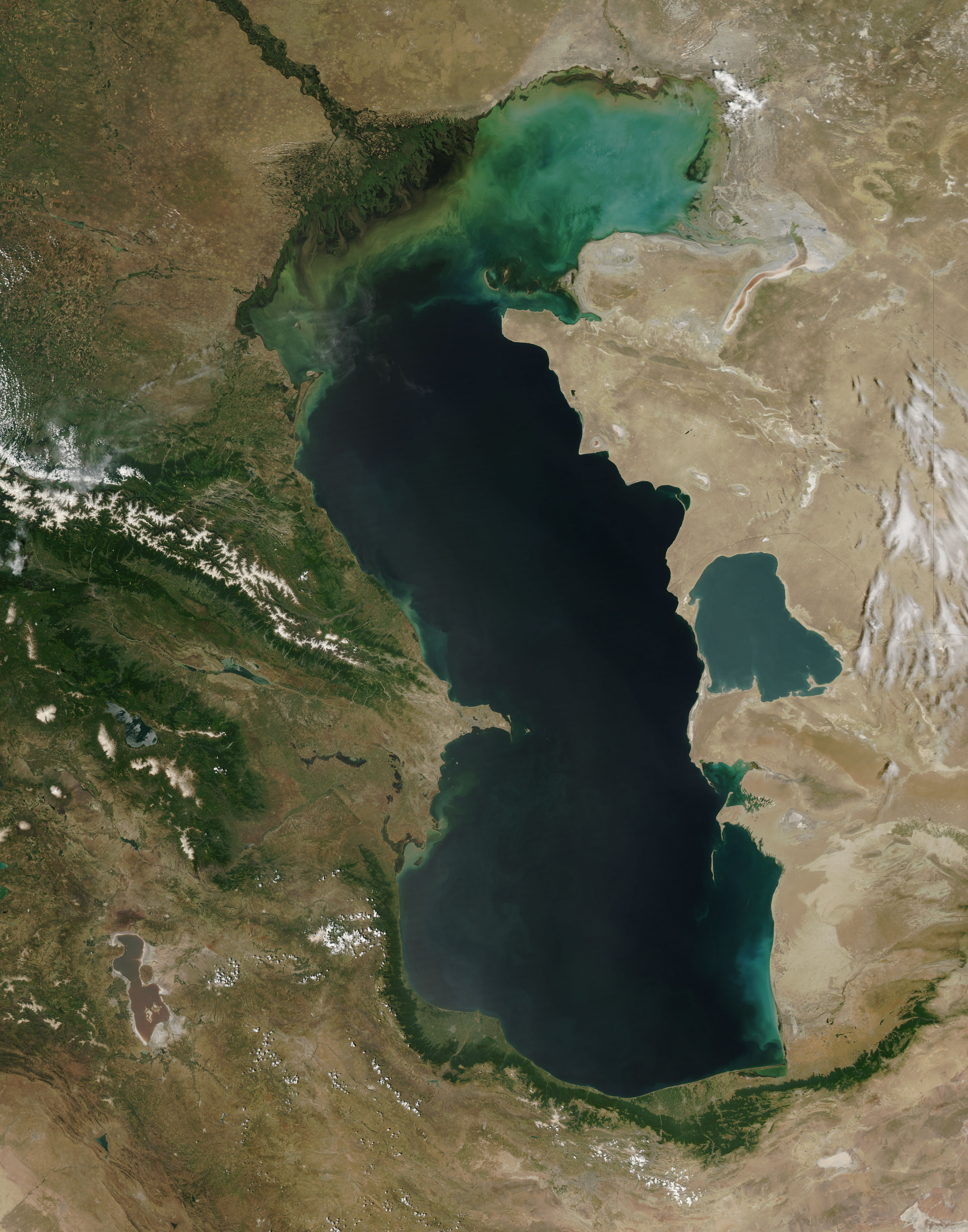 This is a view from orbit of the Caspian Sea as imaged by the MODIS sensor on the Terra satellite. Caption: The original caption from NASA: ::"The northern part of the Caspian Sea is plagued by a process called eutrophication, in which agricultural run-off rich in fertilizers stimulates rampant growth of algae in the water. The death and decay of these algae robs the water of oxygen, with obvious negative consequences for aquatic life. This image of the Caspian Sea shows swirls of green and blue near the mouth of the Volga River (top center), which indicate the presence of algae. The bright blue color of the northeastern part of the sea may be due to a mixture of plant life and sediment, for this is where the sea is most shallow. This image is from the Moderate Resolution Imaging Spectroradiometer (MODIS) on the Terra satellite on June 11, 2003.